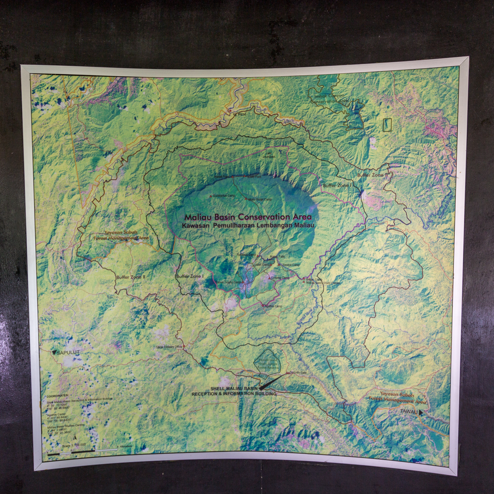 Maliau Basin, Sabah: Shell Maliau Basin Reception & Information Building